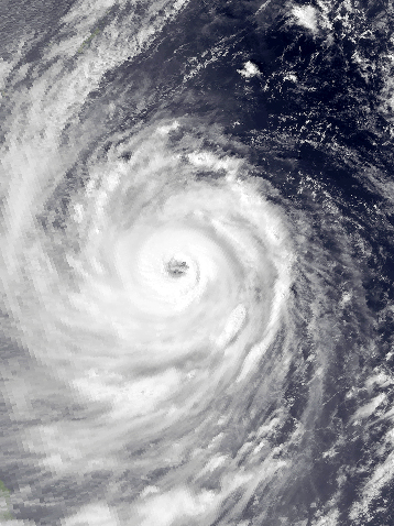 Typhoon Orchid on October 7, 1991. At the time Orchid had winds of 106 knts (122 mph, 196.5 kph), 1-min sustained and a pressure of 935 mbar. Orchid was about 510 miles away from land. This image was taken by the NOAA-11 Satellite.